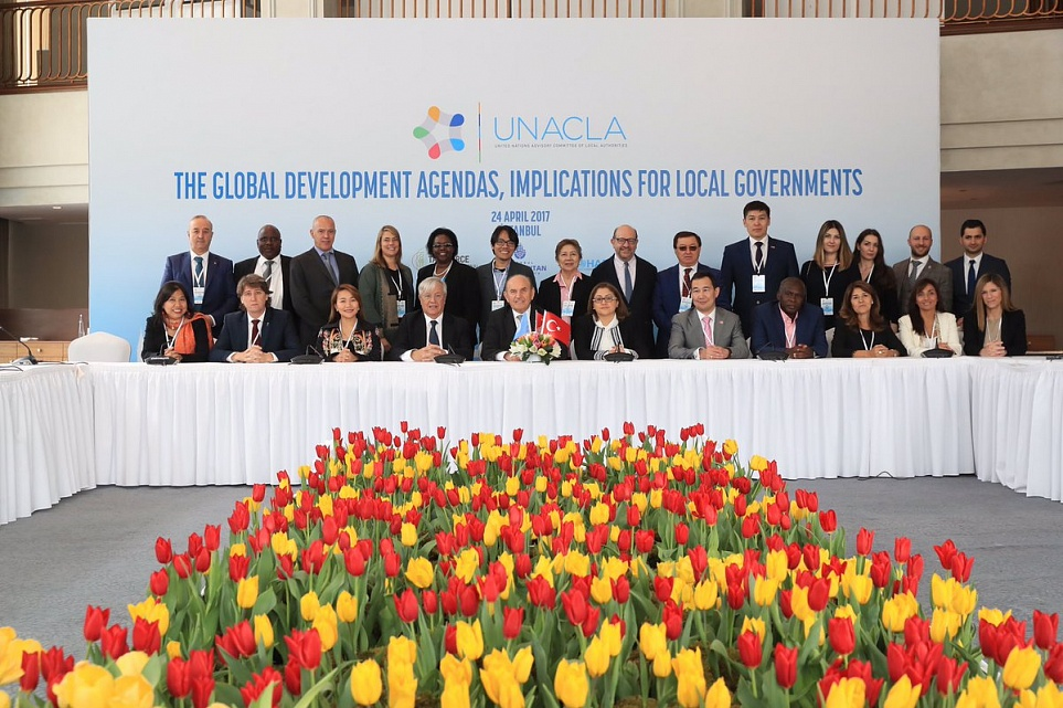 See more at